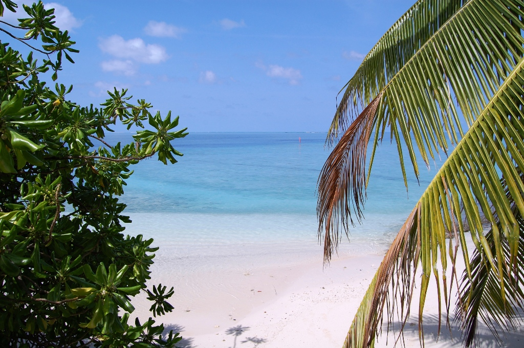 Indian Ocean view from Fihalhohi island, South Malé Atoll, Maldives